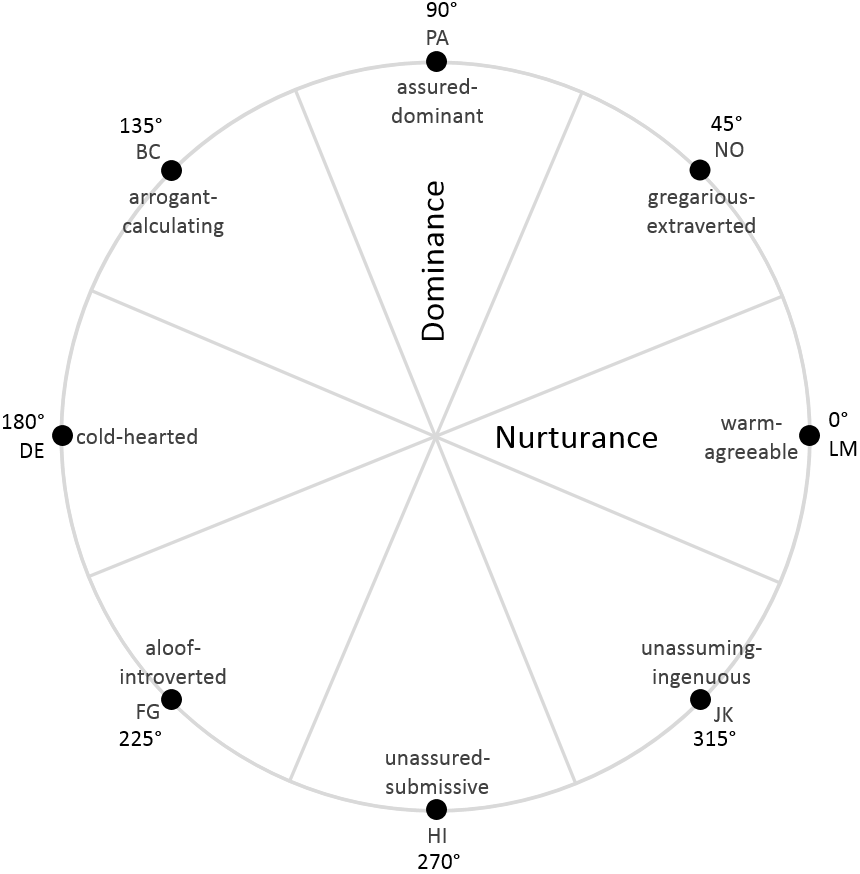 Interpersonal circumplex based on IAS-R